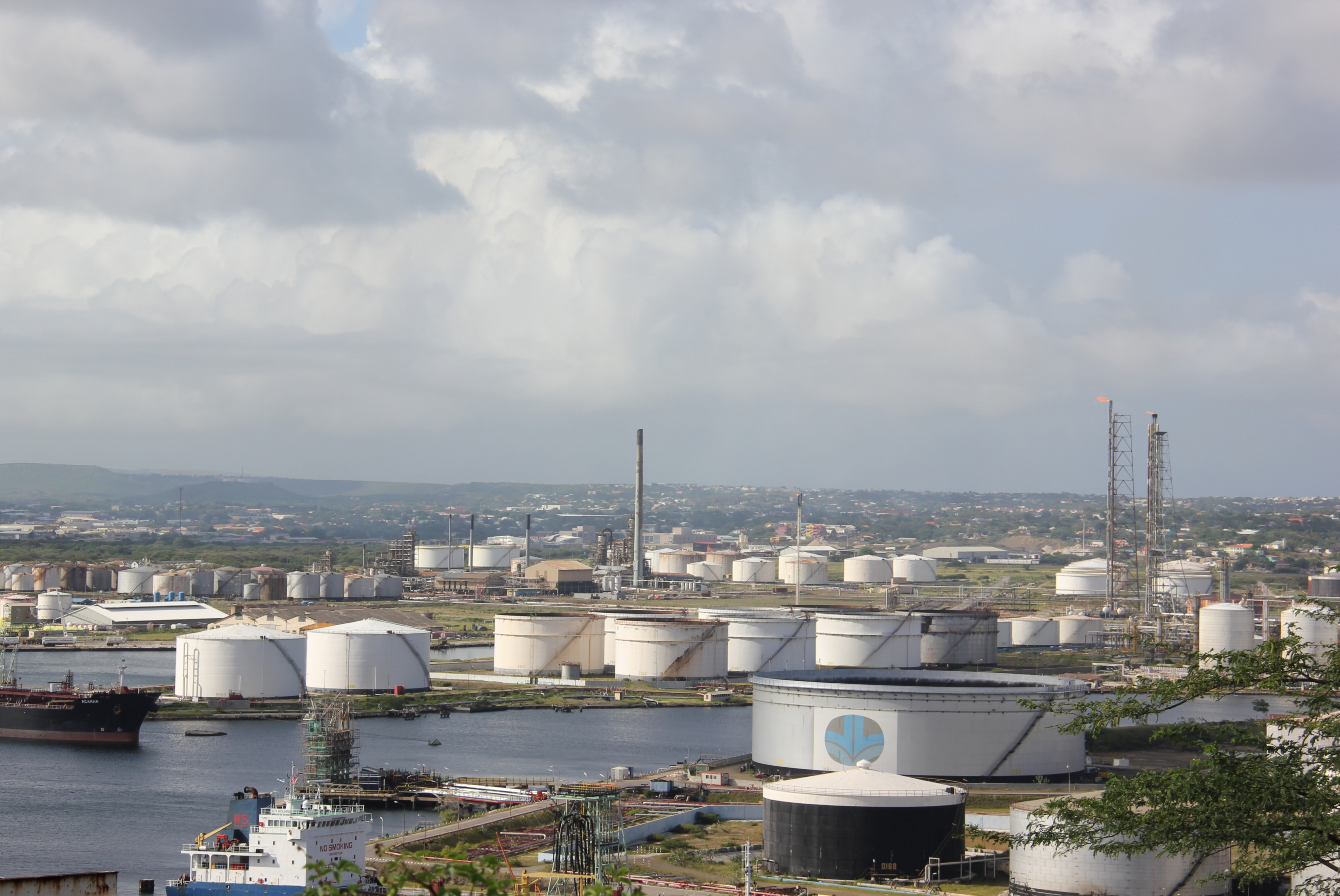 Isla Oil Refinery